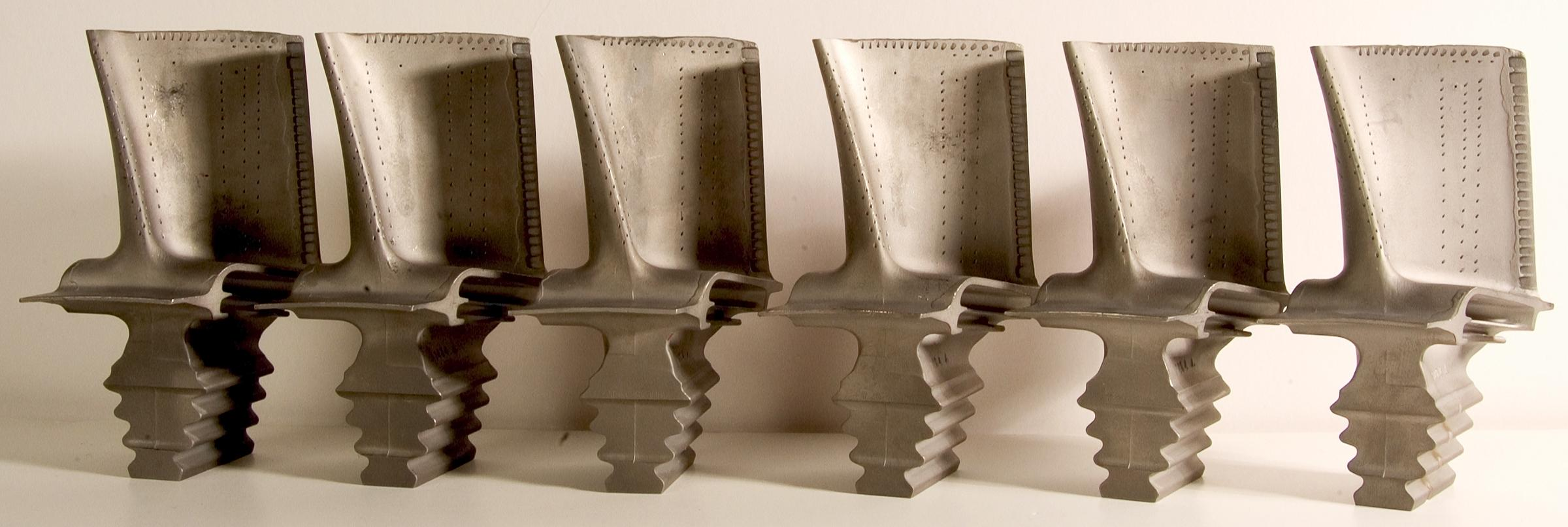 AMES LAB'S NEW BOND COAT FOR THERMAL BARRIER COATING SYSTEMS (TBCS) WILL ALLOW HIGHER OPERATING EFFICIENCIES FOR GAS TURBINE BLADES IN AIRCRAFT ENGINES. THE TBCS COULD PROVIDE IMPROVED RELIABILITY AND DURABILITY OF TURBINE BLADES, MAKING POSSIBLE HIGHER OPERATING EFFICIENCIES AND EXTENDING ENGINE LIFETIMES. AMES WON A 2005 R&D 100 AWARD. THE R&D 100 AWARDS ARE INDUSTRY-WIDE COMPETITION REWARDING THE PRACTICAL APPLICATIONS OF SCIENCE. For more information or additional images, please contact 202-586-5251.